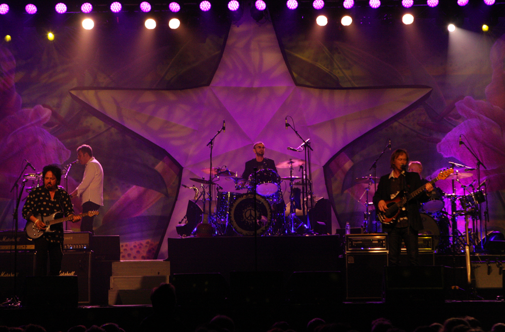 Ringo Starr and his All-Starr Band - Hordern Pavilion, Sydney, Australia.